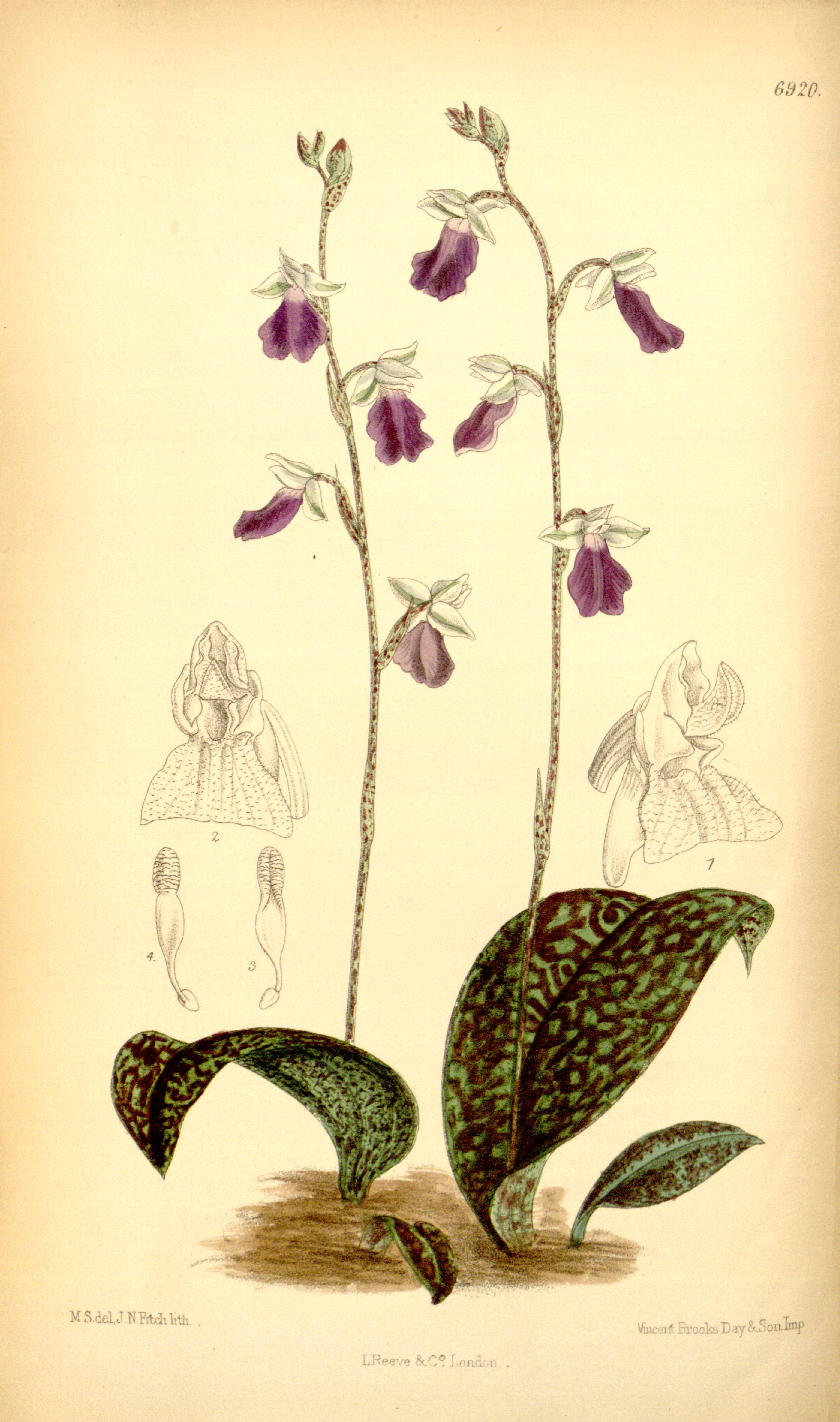 Illustration of Hemipilia calophylla